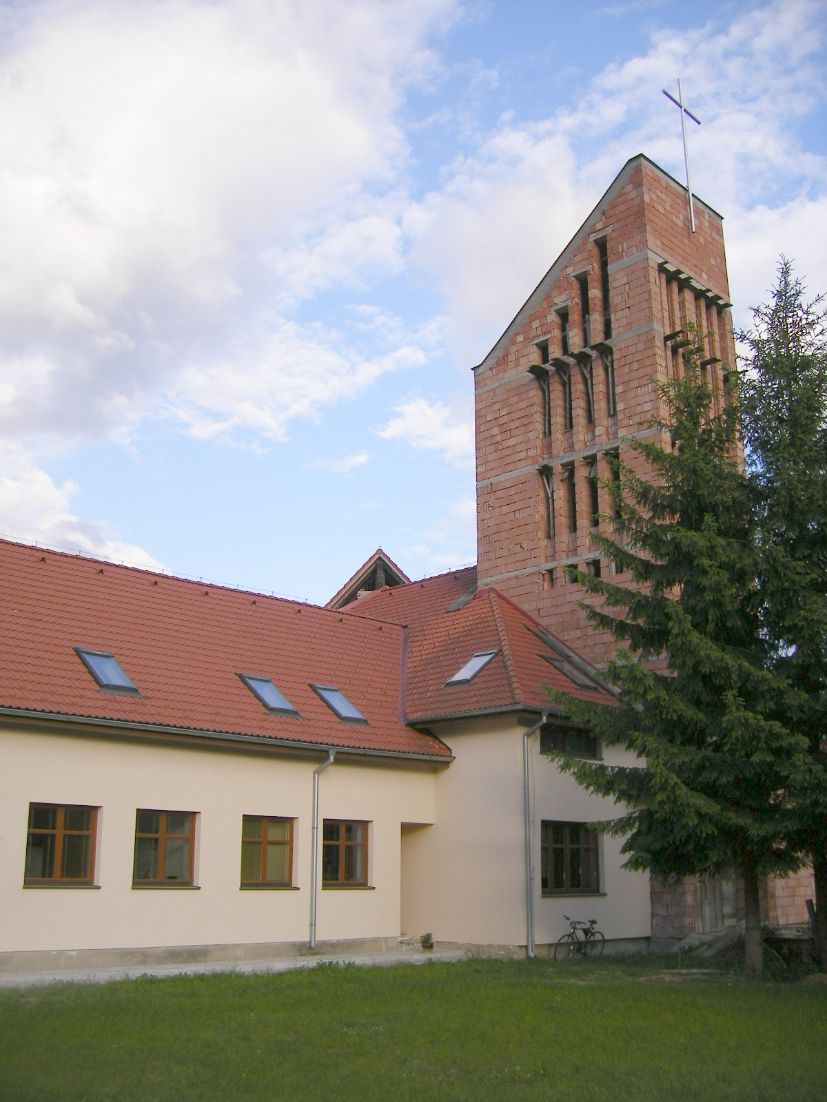 Krpeľany - building of the church